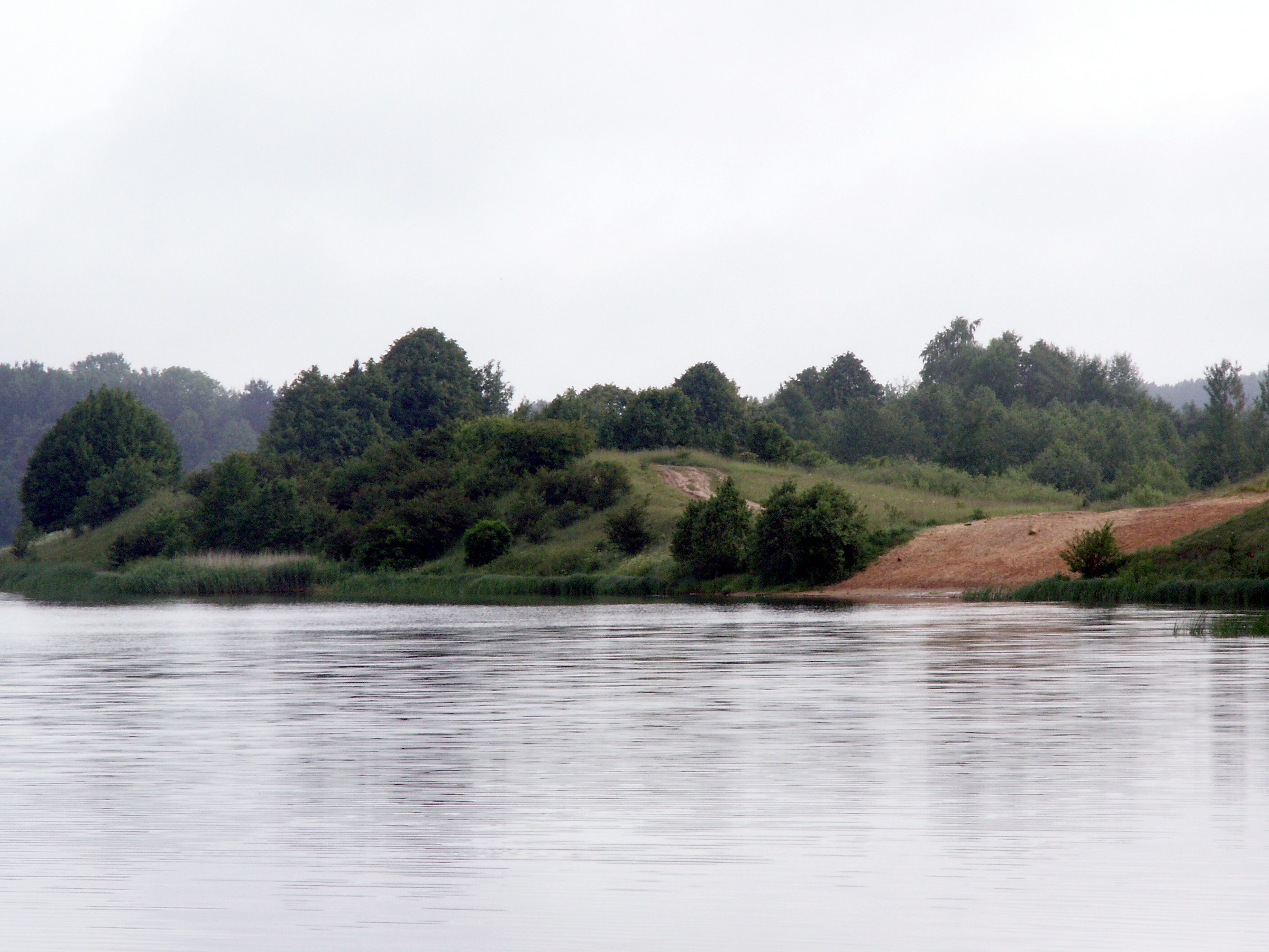 Kurmaičiai, Lithuania